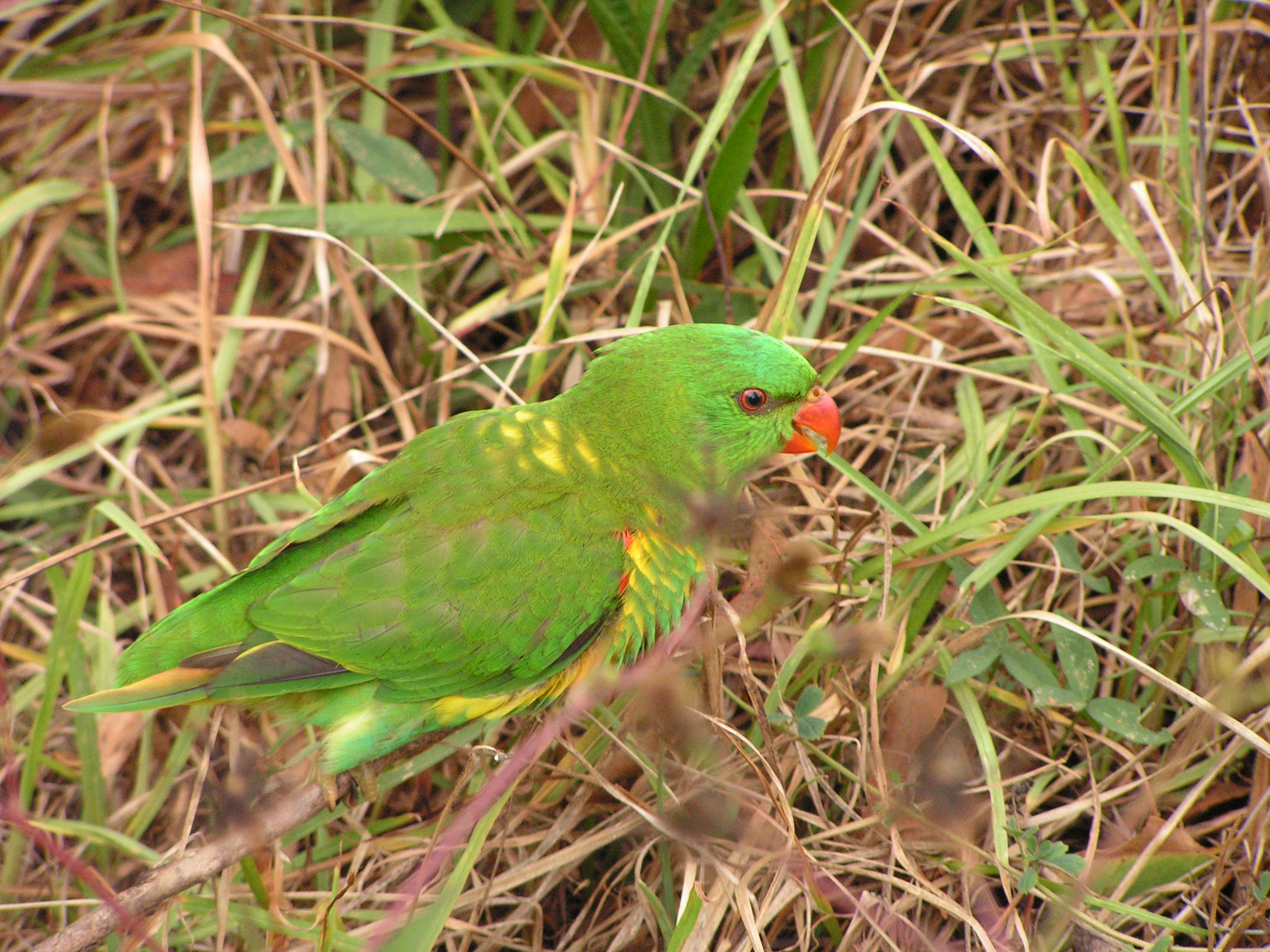 Juvenile Scaly-breasted Lorikeet (Trichoglossus chlorolepidotus) near Toowoomba, Queensland, Australia taken in March 2006.